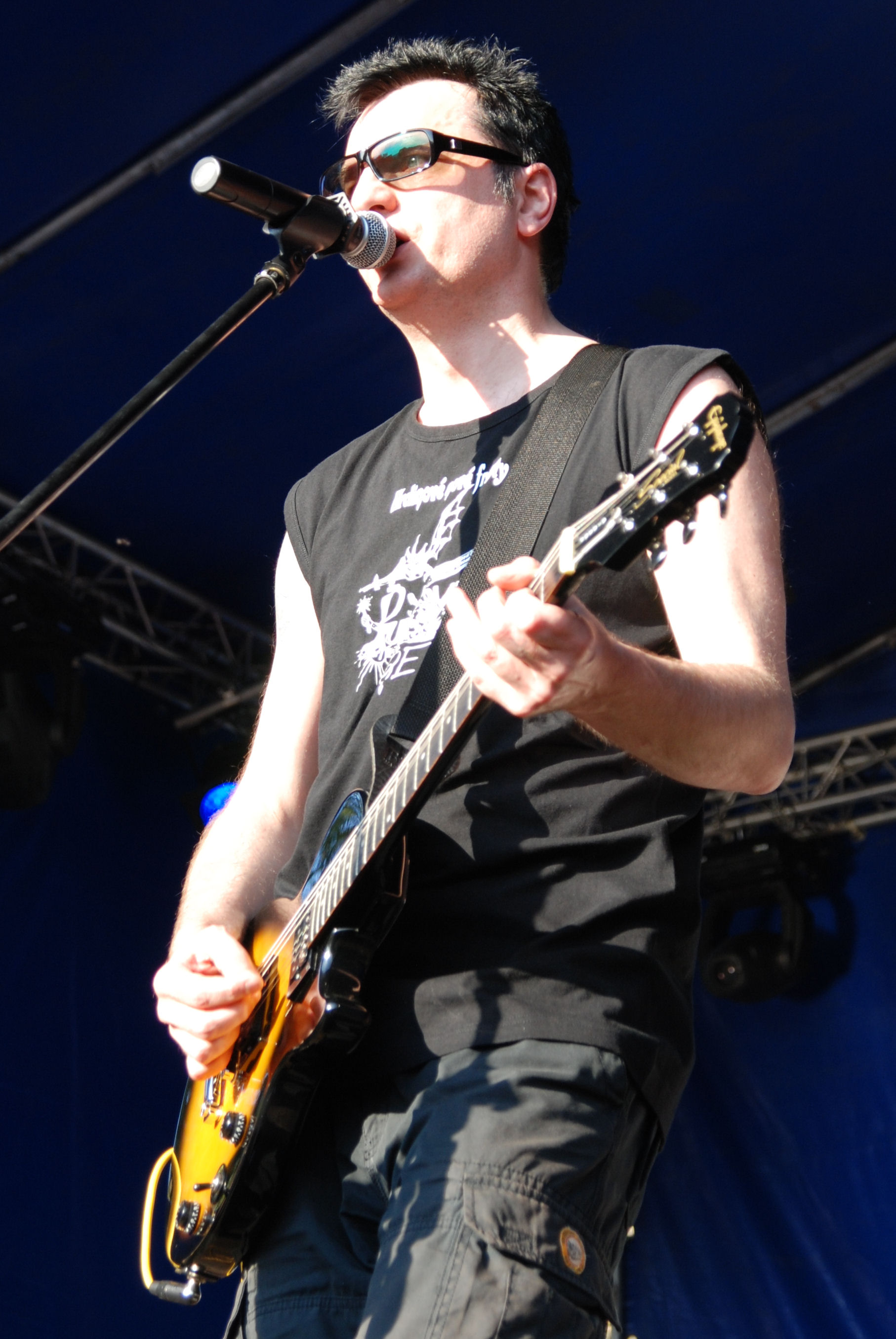 XIII Stoleti during Castle Party 2008